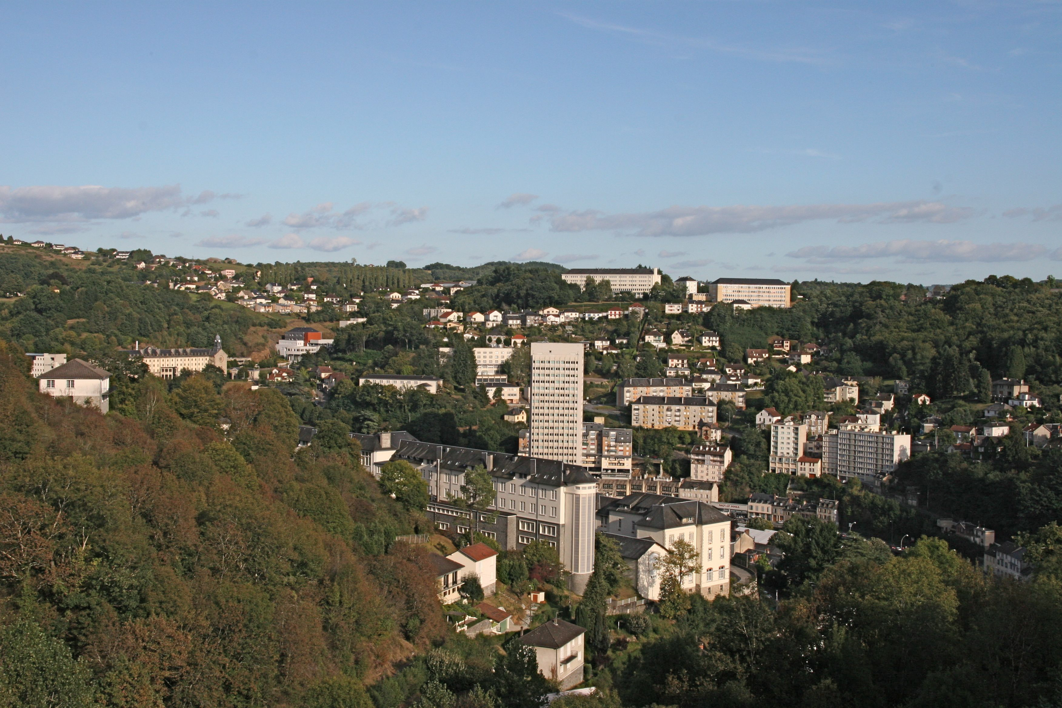 Tulle: Panorama